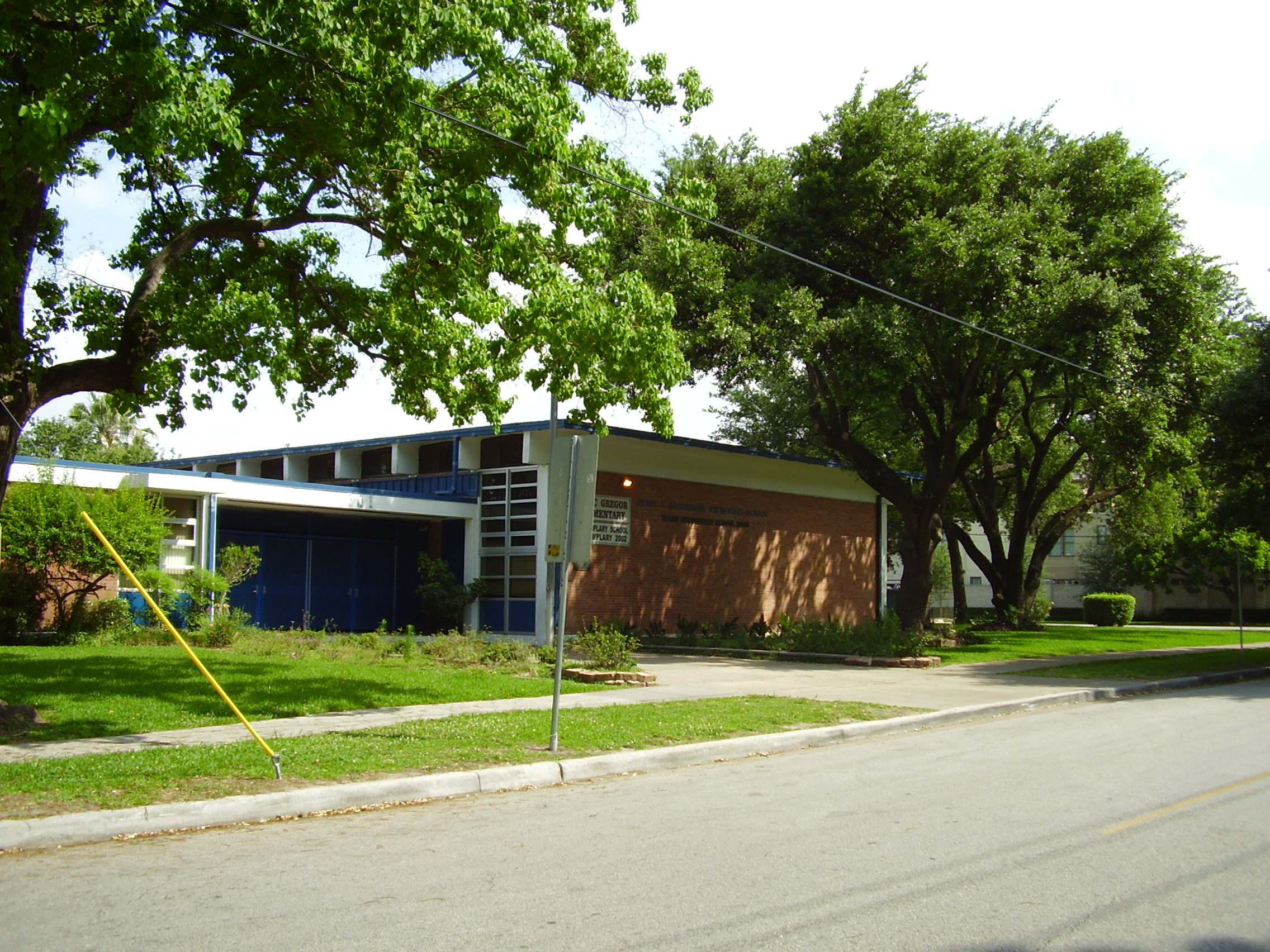 Henry F. MacGregor Elementary School